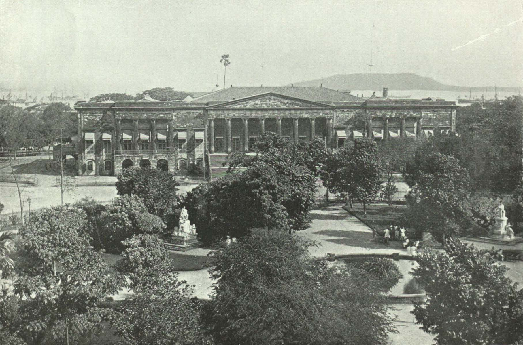 The building was begun in 1821 and not completed for twelve years.